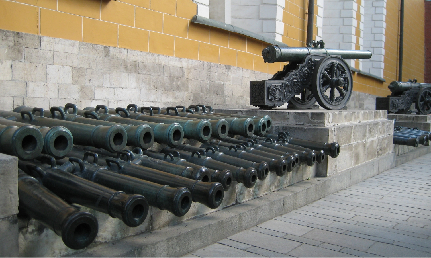 cannons at Kremlin arsenal